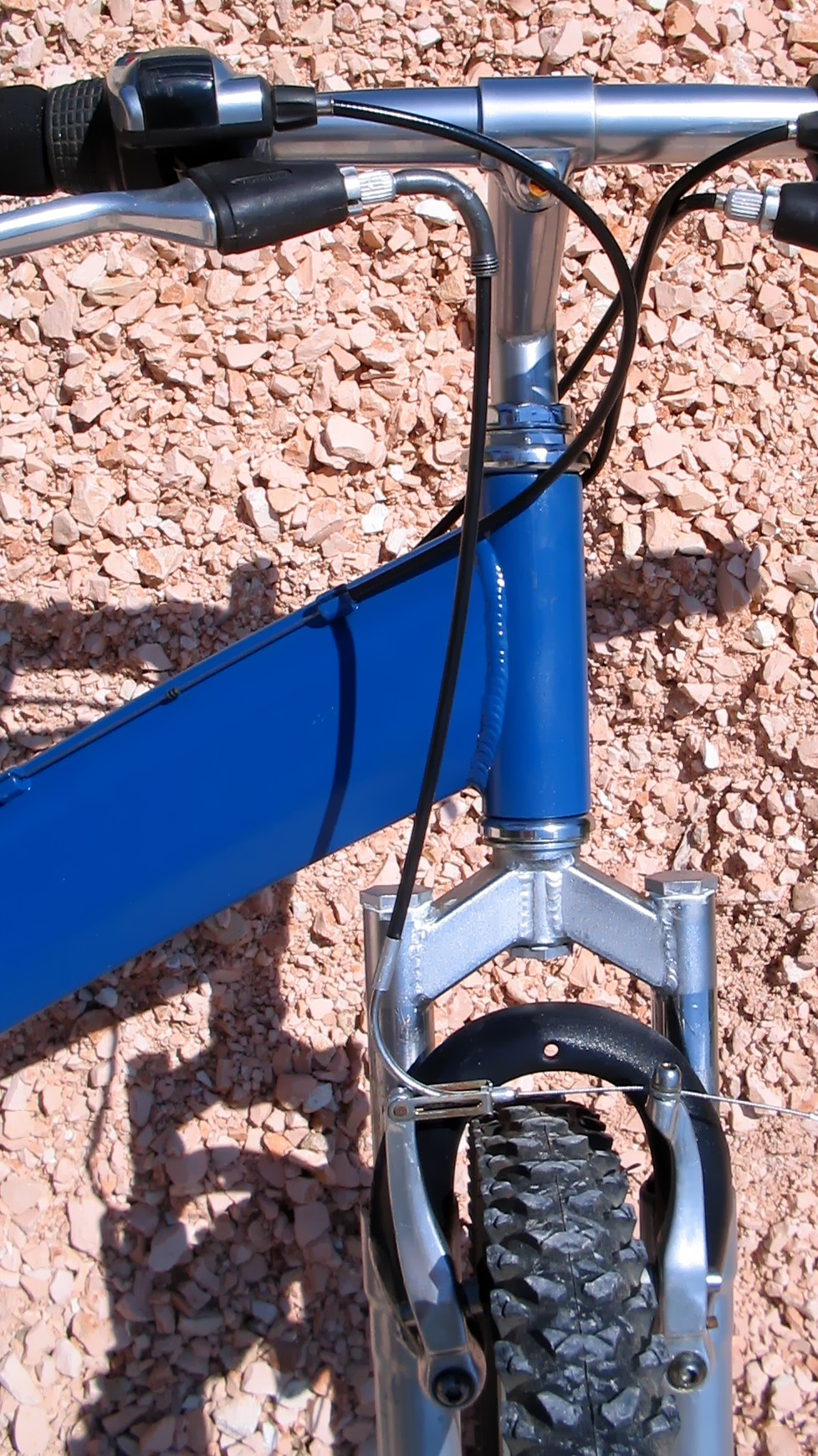 V-brake with command to the right, allowed by the presence of a curve roll on the right-hand lever.